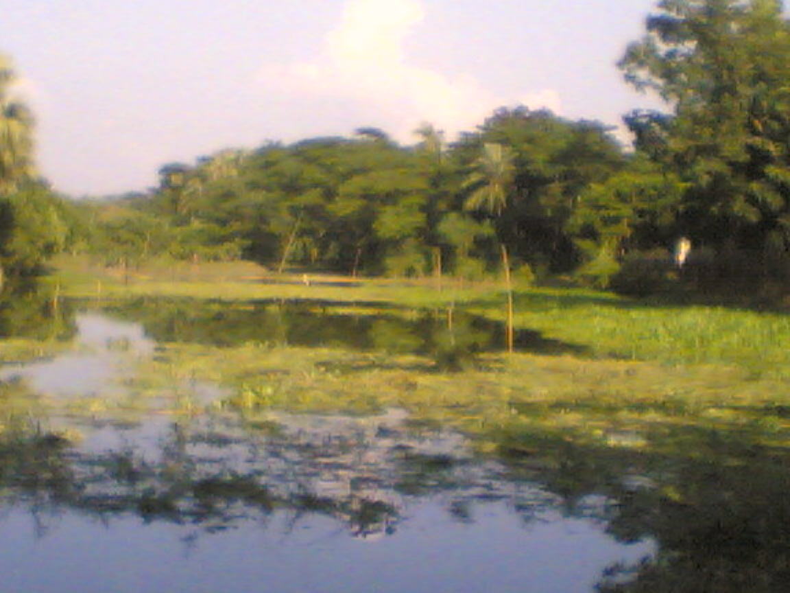 Hatashe Channel, photo taken by Me (Shemul)